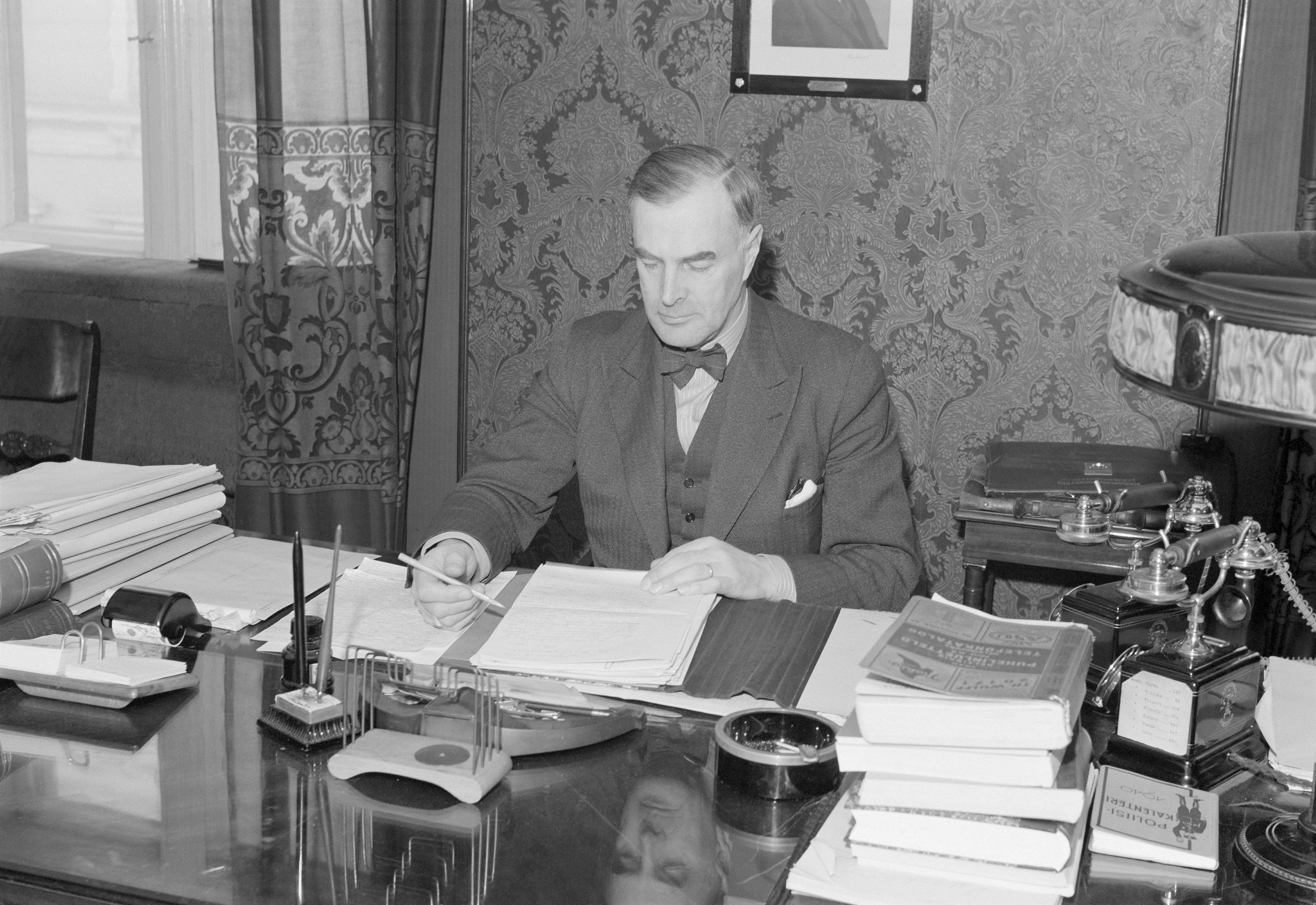 Minister of Interior Ernst von Born. Picture taken 30.3.1940